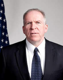 Official portrait of John O. Brennan.